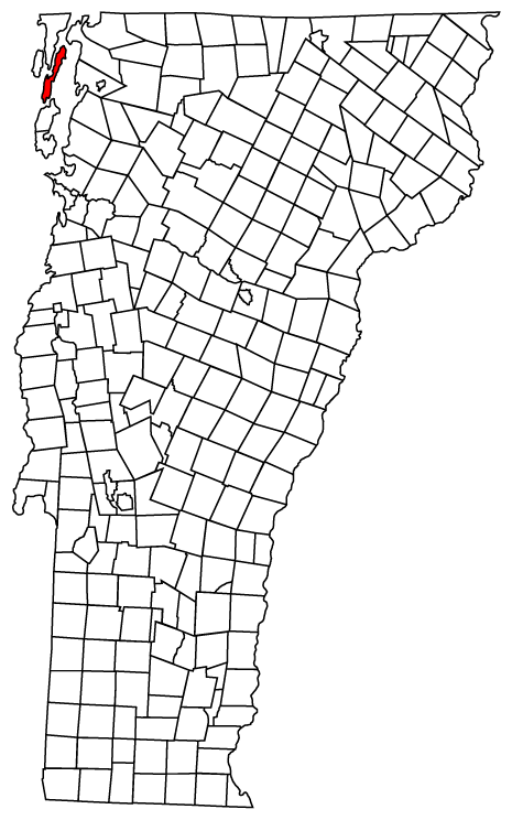 Description: Map of Vermont towns with North Hero highlighted Source: Map created by Jared C. Benedict on 26 March 2004. Copyright: © Jared C. Benedict.